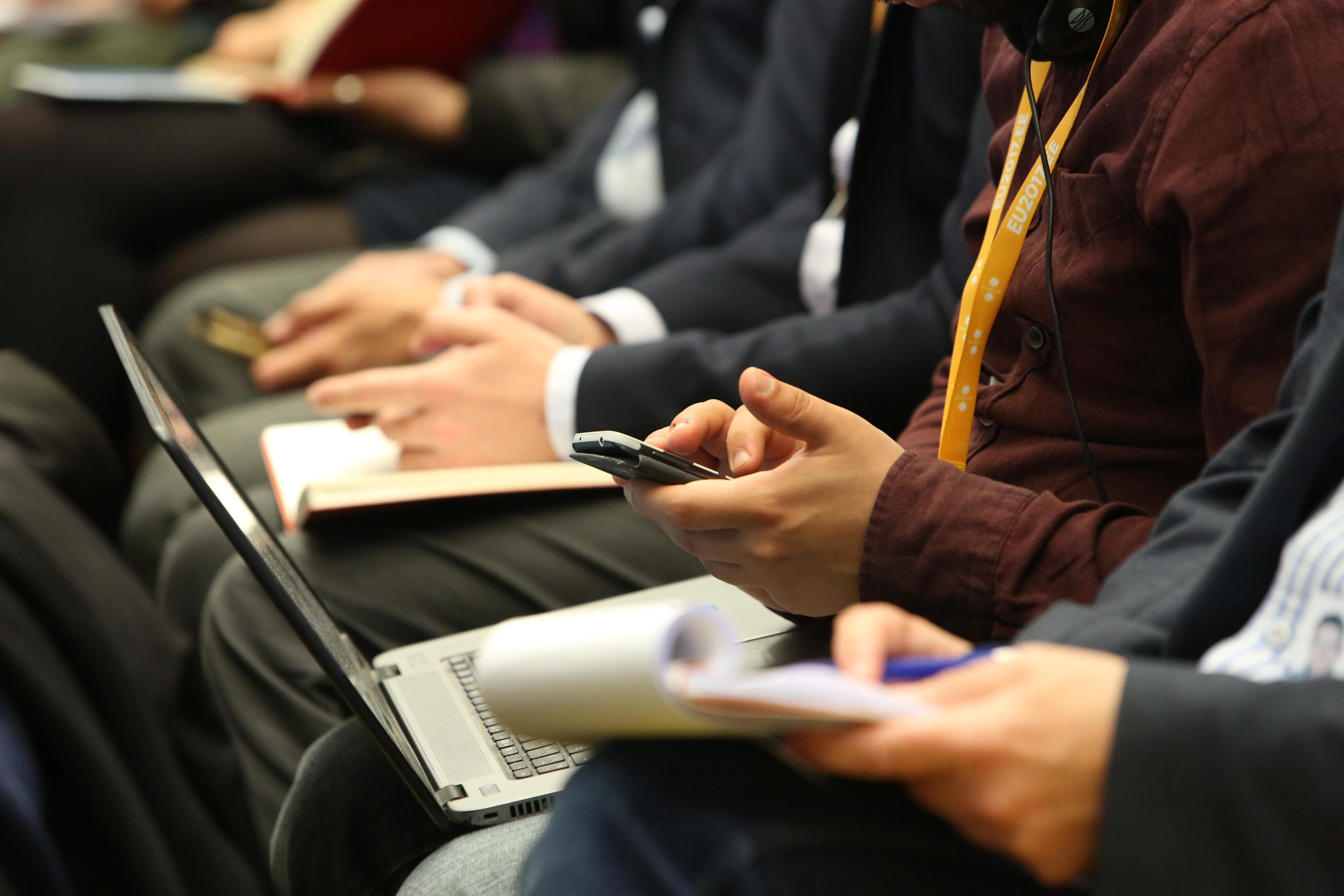 Media at work. Press conference